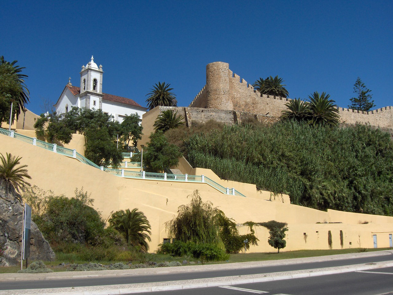 Castle and parish church of Sines, Portugal